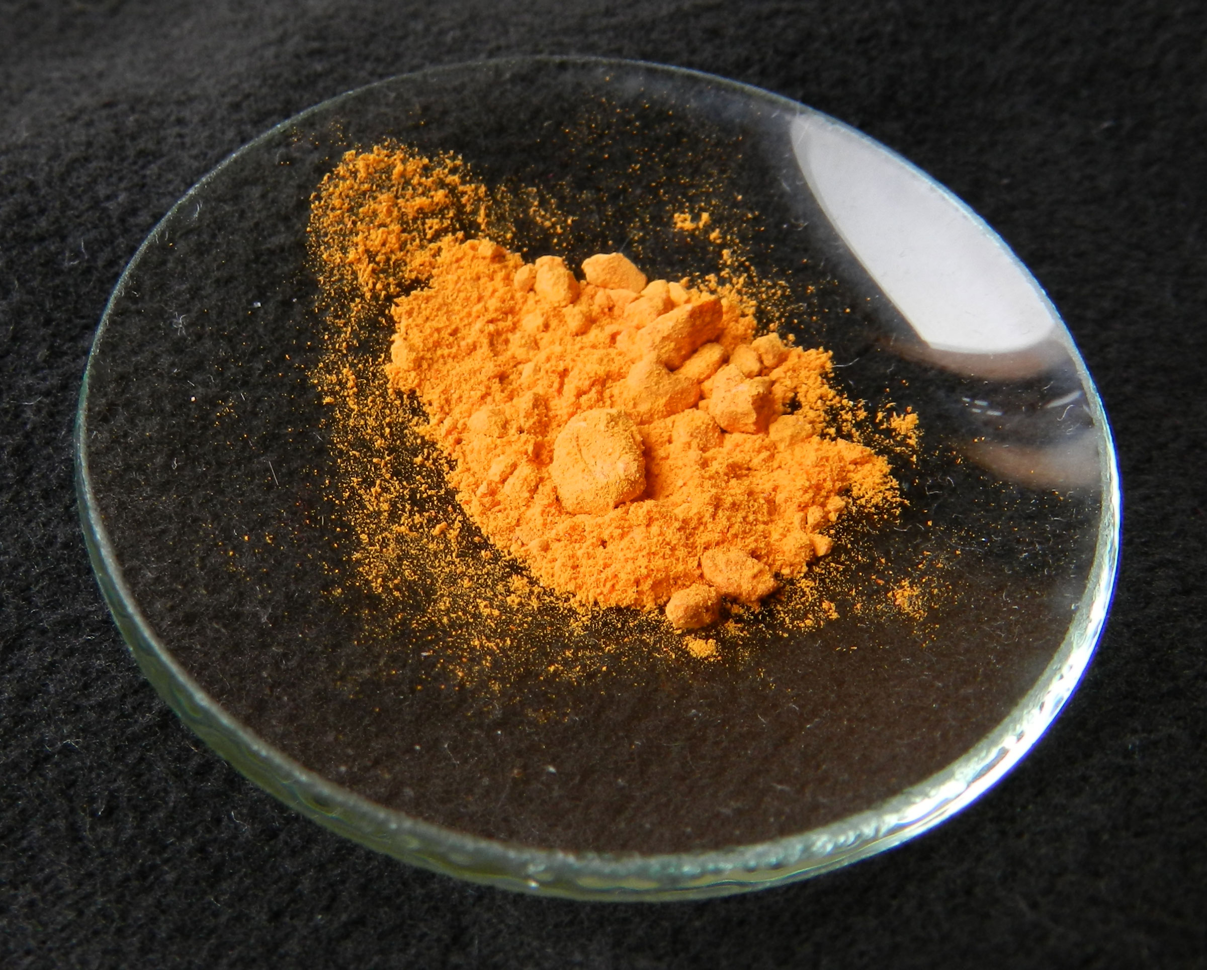 Sample of Hexamminecobalt(III) chloride